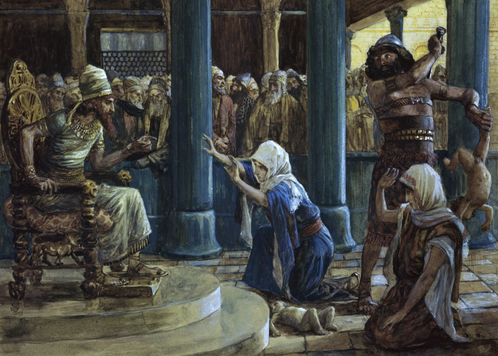 The Wisdom of Solomon, by James Jacques Joseph Tissot (French, 1836-1902)